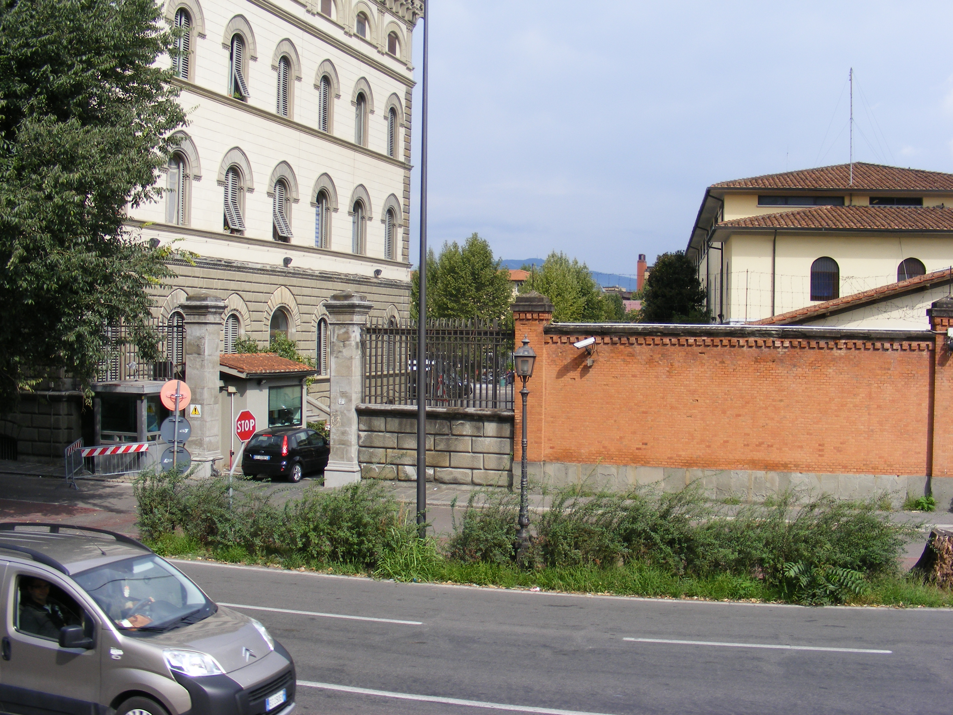 Entrance to "Scuola Marescialli e Brigadieri dei Carabinieri · Comando 2 Reggimento allievi · Comando 1 Battaglione allievi"